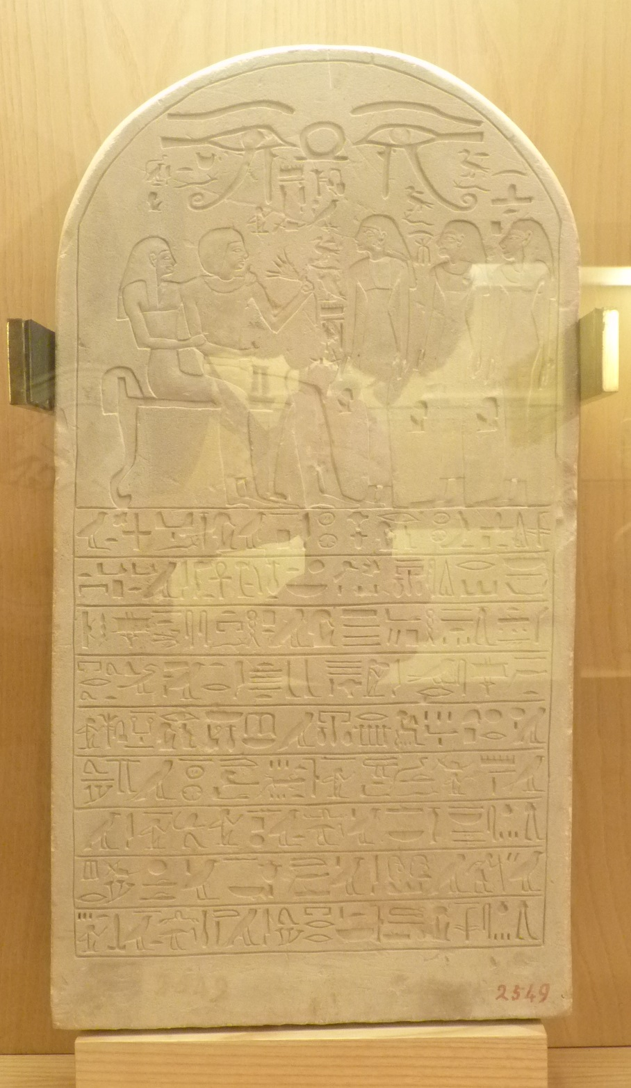 Stele for Harmone (or Hormeni), a scribe who later became nomarch of Nekhen (Hierakonpolis) and an overseer of the tributes from Wawat (Lower Nubia). White limestone, brought probably from Hierakonpolis by Rosellini in 1828-29, beginning of the 18th dynasty, New Kingdom. Florence, Museo archeologico nazionale, Inv. n. 2549. [ref: Sergio Bosticco, Museo archeologico nazionale di Firenze, Le stele egiziane del Nuovo Regno, 1965